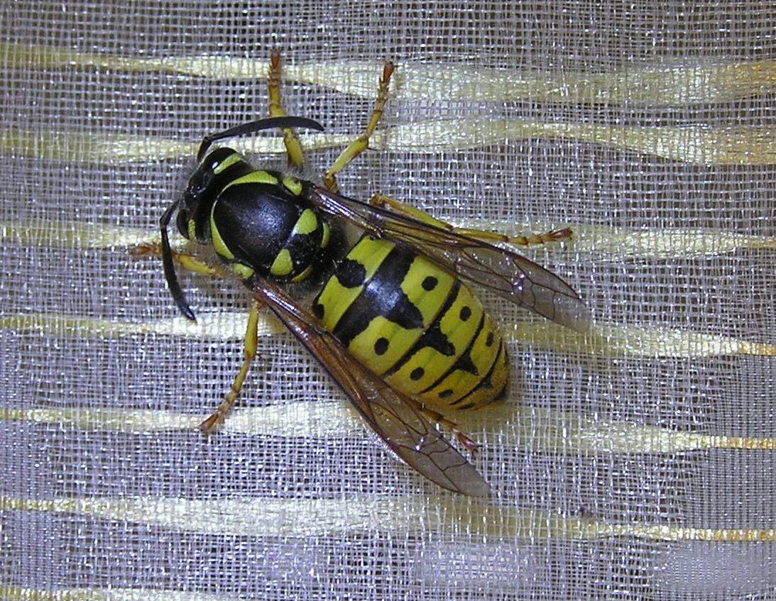 A queen of the vespid Vespula germanica, taken in Jerusalem, Israel